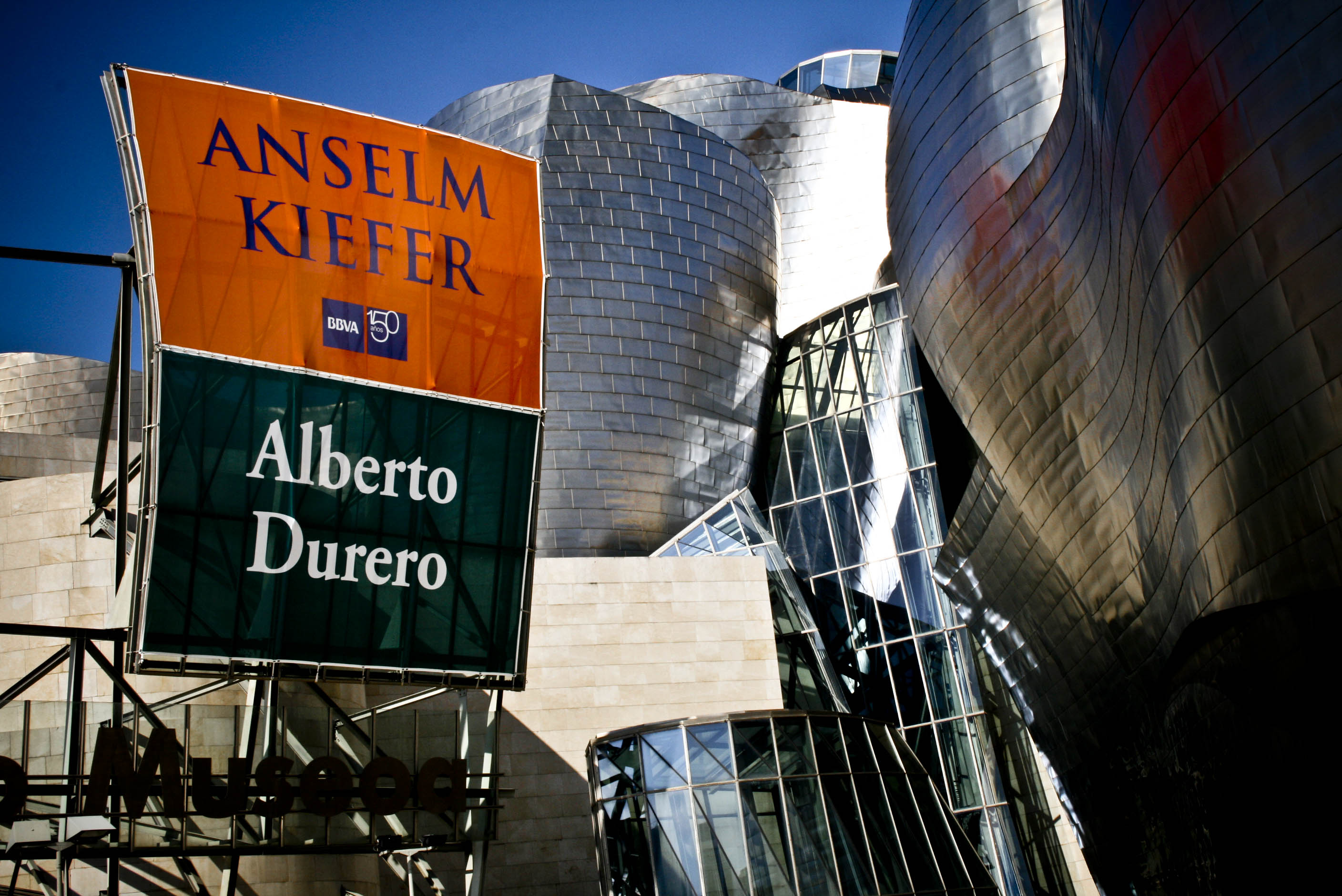 Guggenheim museum, Bilbao